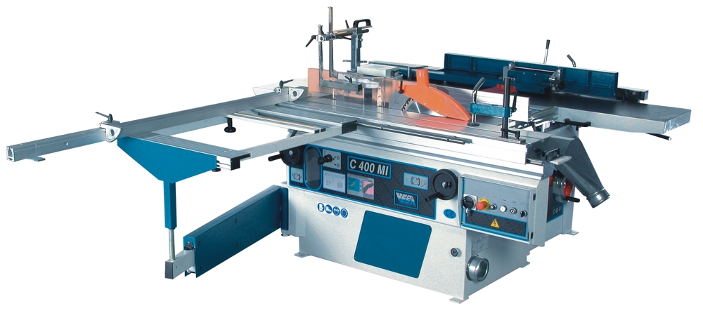 Universal combined woodworking machine. Technical data C 400MI: Net weight: 860 kg SURFACE PLANER Table dimensions: 2000x400mm Contemporary opening planer table 3-knives cutterhead: Ø 87,5 mm Cutterhead speed: 4900 rpm Fence tilting up to 0° ÷45° THICKNESS PLANER Table dimensions: 630x400 mm Max. thickness: 210 mm Min. height of thickness: 4 mm Max. depth of cut: 7 mm Forwarding speed (2): 6,5 - 13 m/1' SAW - SPINDLE MOULDER Fixed table dimensions: 1100x480 mm Sliding table dimensions: 290x1300 mm Saw blade Ø max.315 mm Saw blade arbor diam. 30 mm Saw blade tilting: 0°÷45° Saw blade speed: 4300 rpm Max. depth of cut at 90°: 100 mm Max. depth of cut at 45°: 70 mm Useful cut between blade and fence: 460 mm Crosscutting capacity: 1300 mm Spindle-moulder speed: 3000-6200-8000 rpm Diameter of spindle: 30 mm Diameter of table hole: 260 mm Max. height of spindle: 140 mm Motors power: surface-thickness 2.2 kW (3 HP) saw 2.2 kW (3 HP) spindle-moulder 2.2 kW (3 HP) STANDARD EQUIPMENT Widia saw blade Safety devices Service spanners OPTIONALS Motors power Scoring unit: 0.37 kW, diam. 80 mm - shaft 20 mm - 8000 rpm Sliding table extension Sliding table length: 1600 - 2100 - 2500 mm Diameter of spindle: 35-40-50 mm Tenoning plate with safety guard Tersa-knife cutterhead 2 Rollers on thickness table MORTISING UNIT - OPTIONAL Mortising table dimensions: 420x220mm Longitudinal motion: 155 mm Transversal motion: 110 mm Vertical motion: 160 mm Westcott boring spindle 0÷16 mm